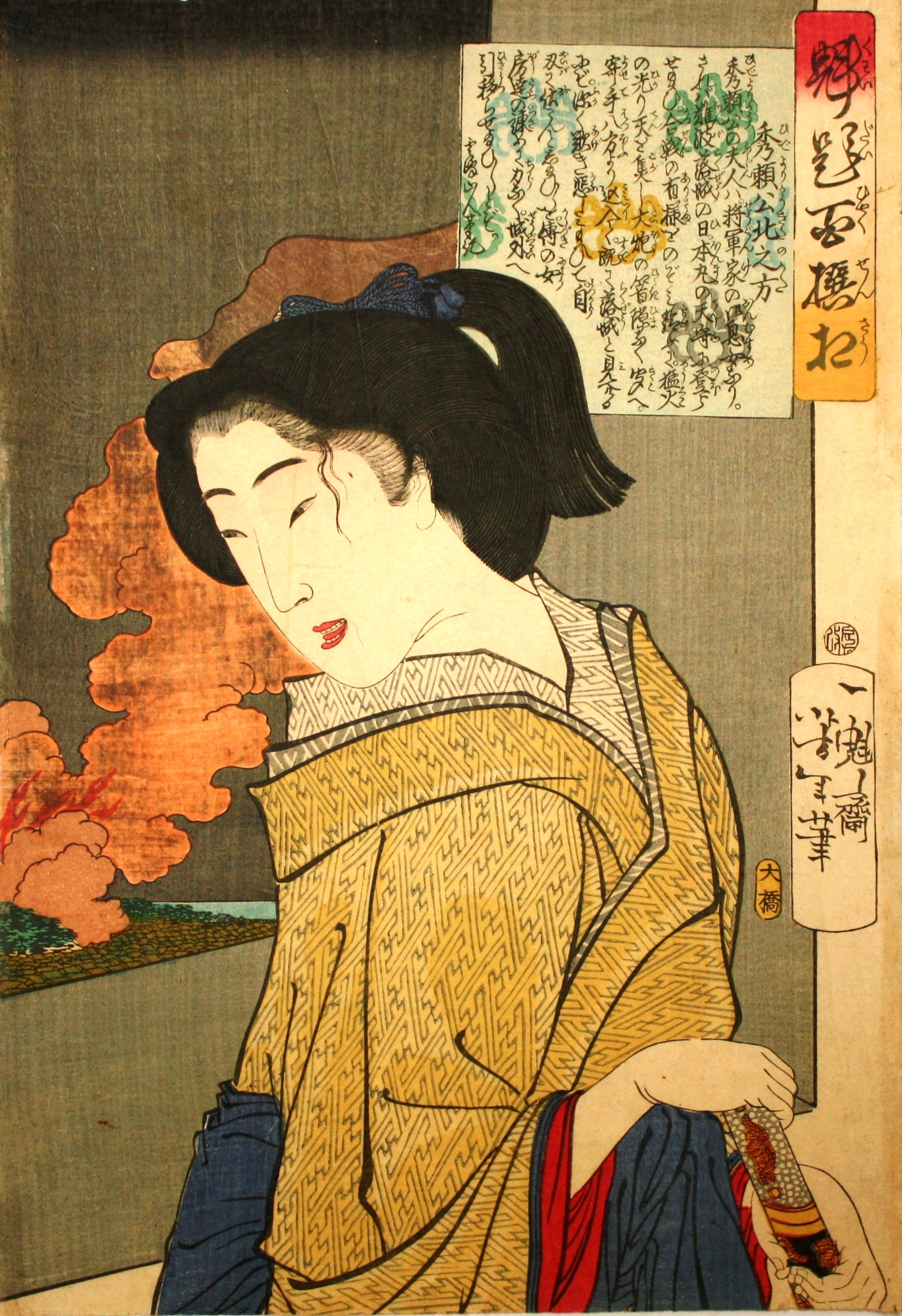 Ukiyo-e of Senhime.